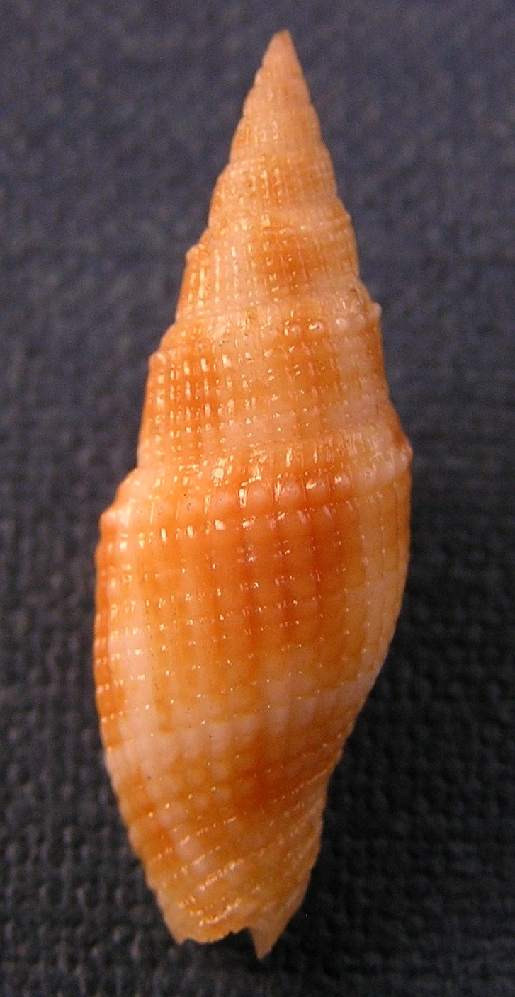 Vexillum (Costellaria) poppei Guillot de Suduiraut, 2007 , a ribbed miter from the family Costellariidae; Philippines